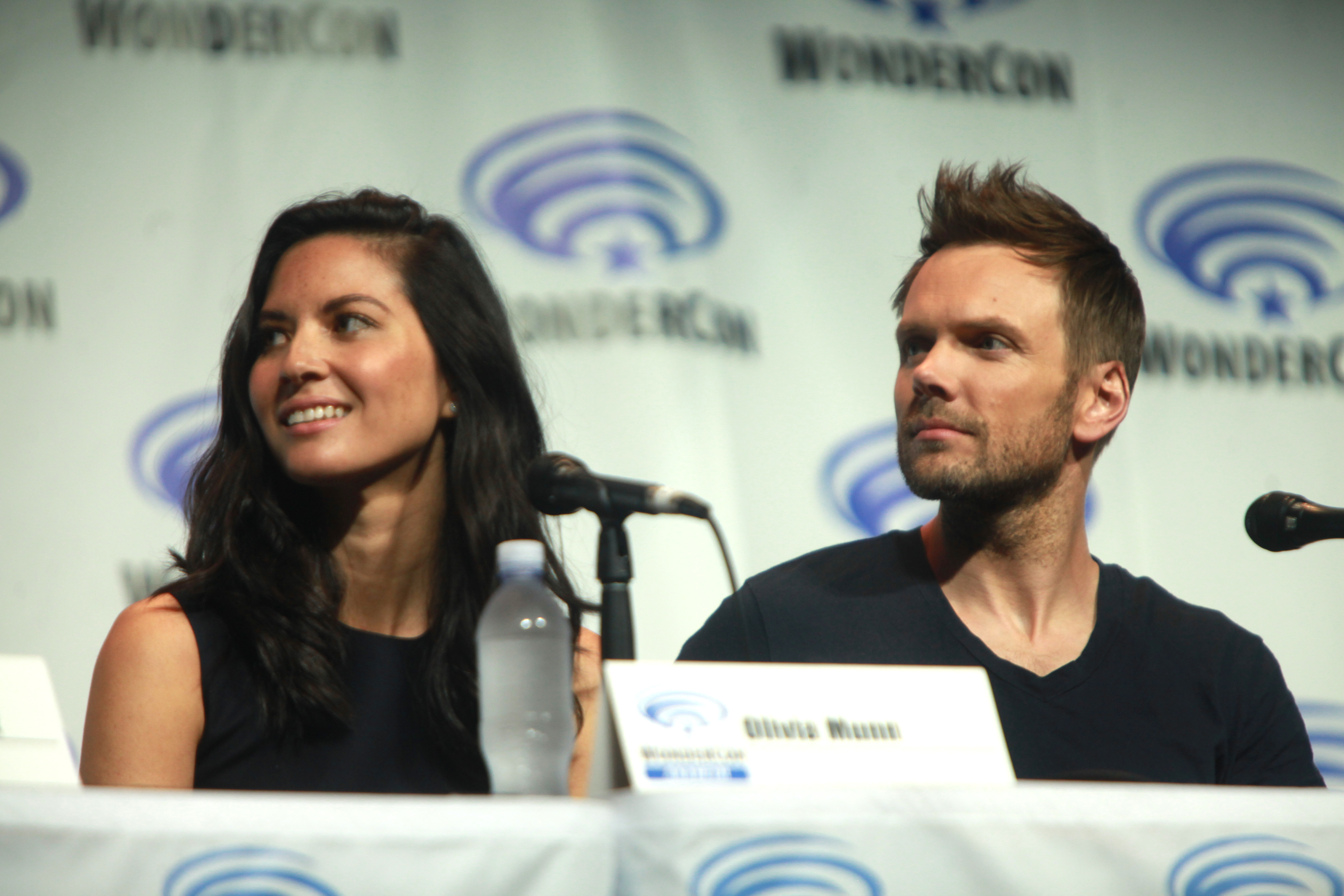 Olivia Munn and Joel McHale speaking at the 2014 WonderCon, for "Deliver Us from Evil", at the Anaheim Convention Center in Anaheim, California.